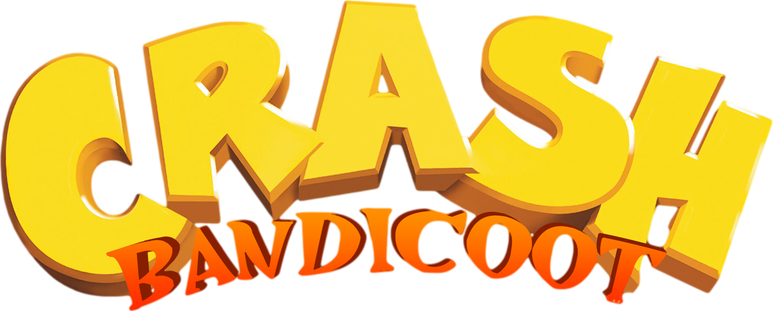 Crash bandicoot HD logo by jerimiahisaiah